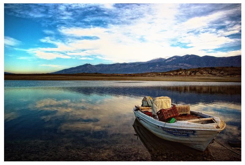 Lake Polifytos in Kozani Prefecture, Greece